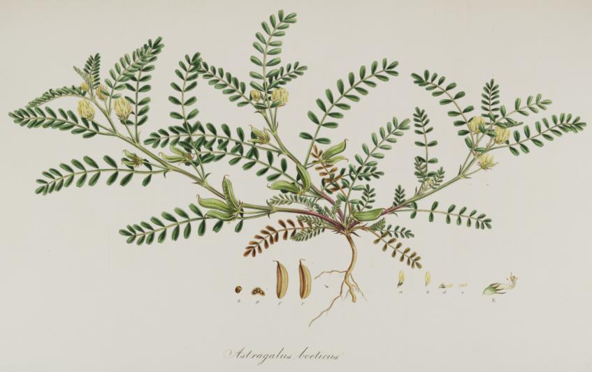 Astragalus boeticus